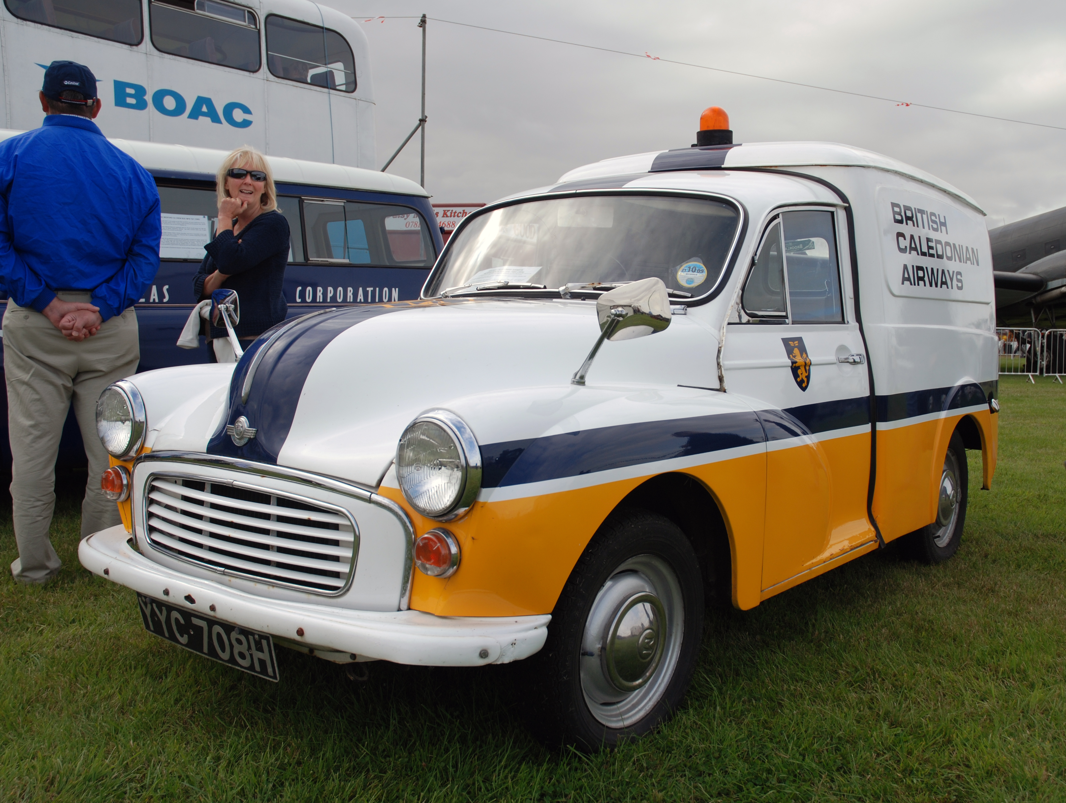 Morris Minor, Dunsfold, Aug 2009